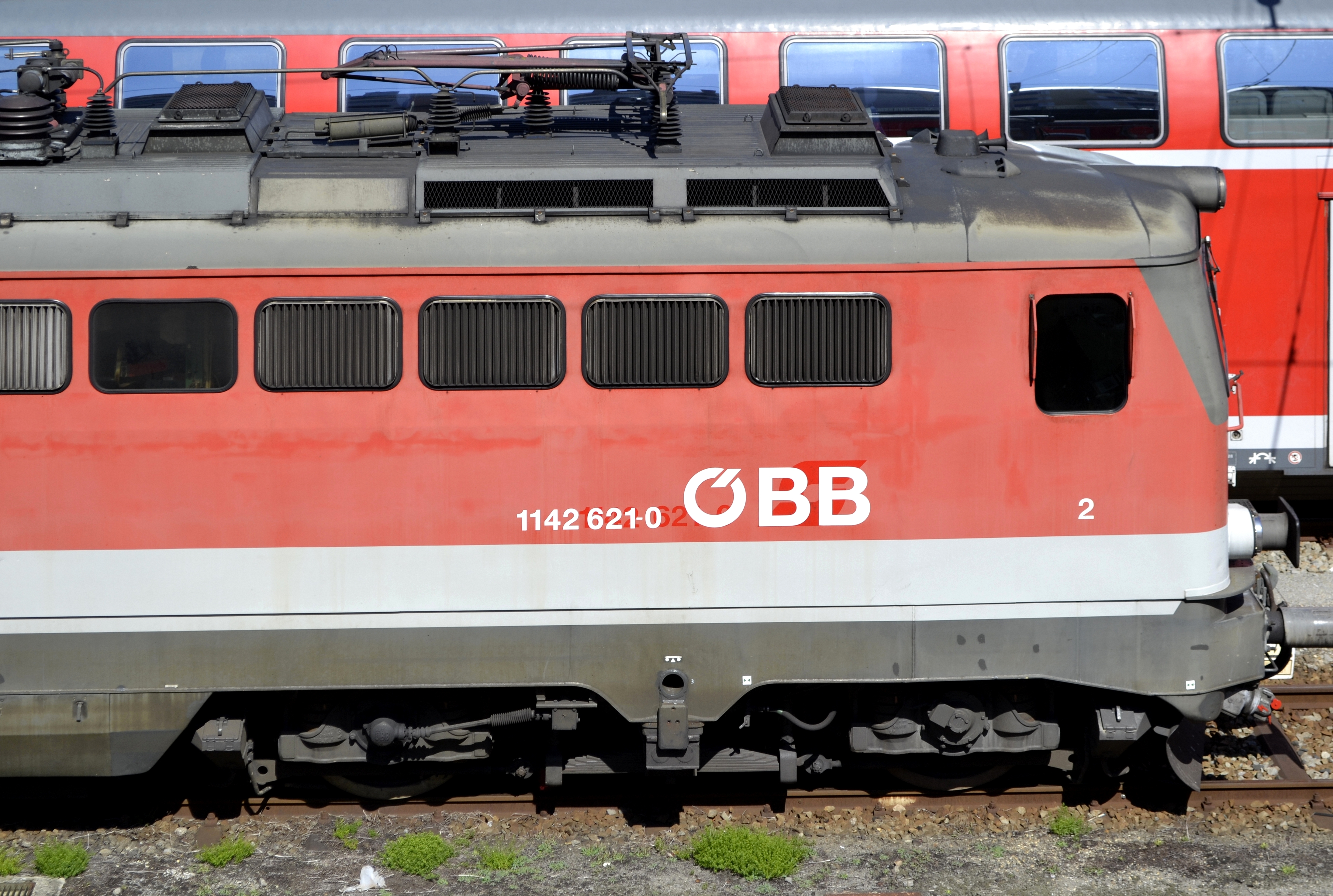 A ÖBB 1142.621-0 at the main train station of Passau.